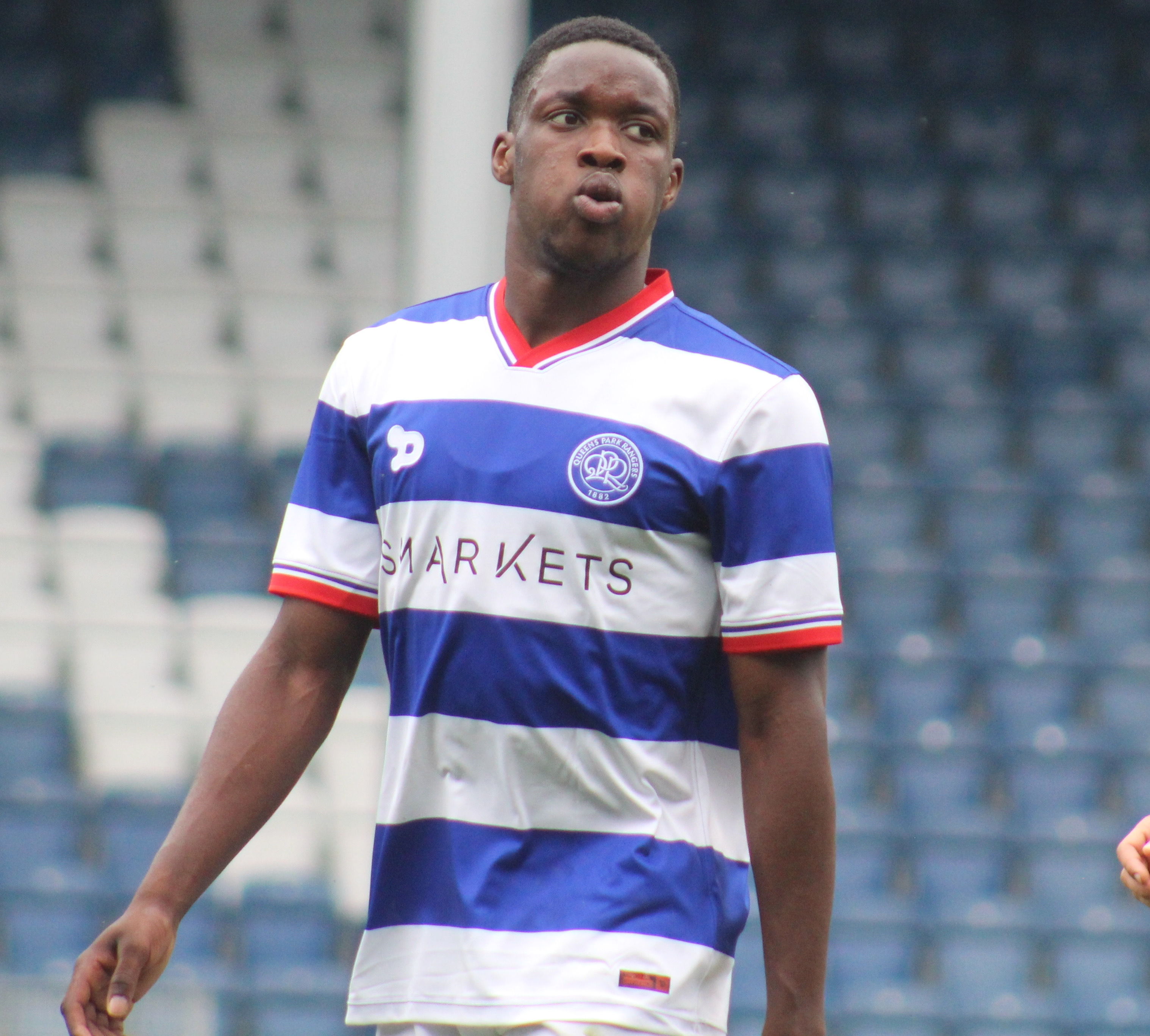 Shodipo in pre-season for Queens Park Rangers